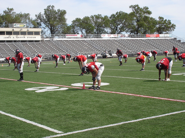 Central's high school football team, the Minutemen, stretching during a summer practice.